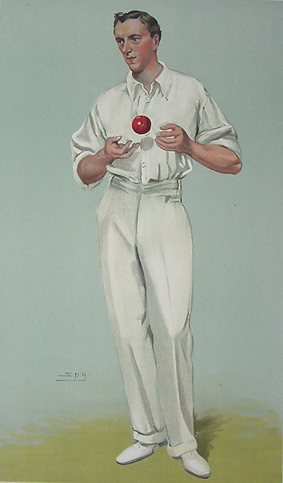 Caricature of Bernard James Tindal (B.J.T.) Bosanquet (1877-1936), England cricketer. Caption read "an artful bowler".